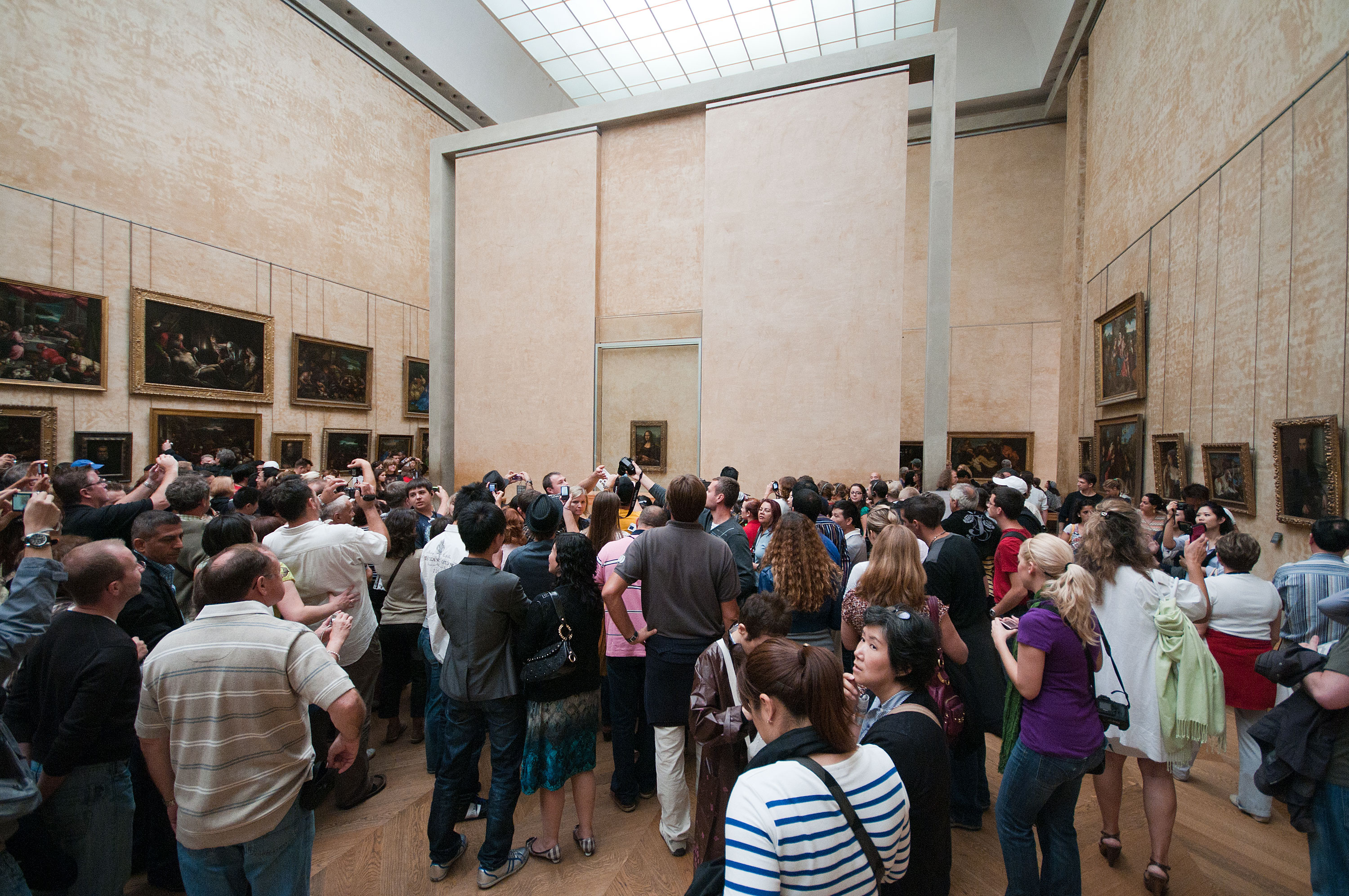 crowd around Mona Lisa in Louvre